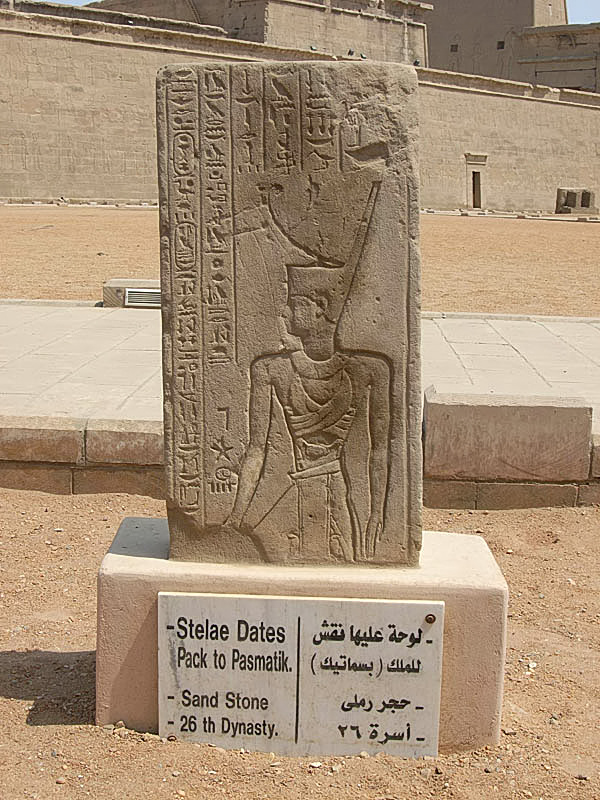 Edfu Temple, open-air museum, sand-stone stela of Psametik, Egypt